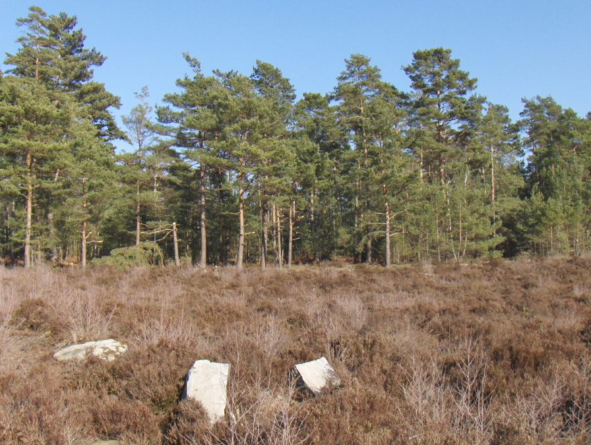 Moor and trees in Forêt d'Ermenonville, Oise, France